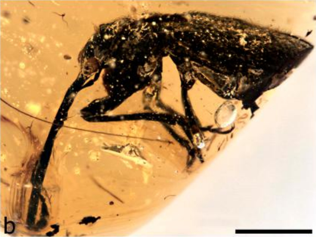 Rhynchitomimus chalybeus, holotype. habitus, left lateral (b) Scale bar: 1.0 mm